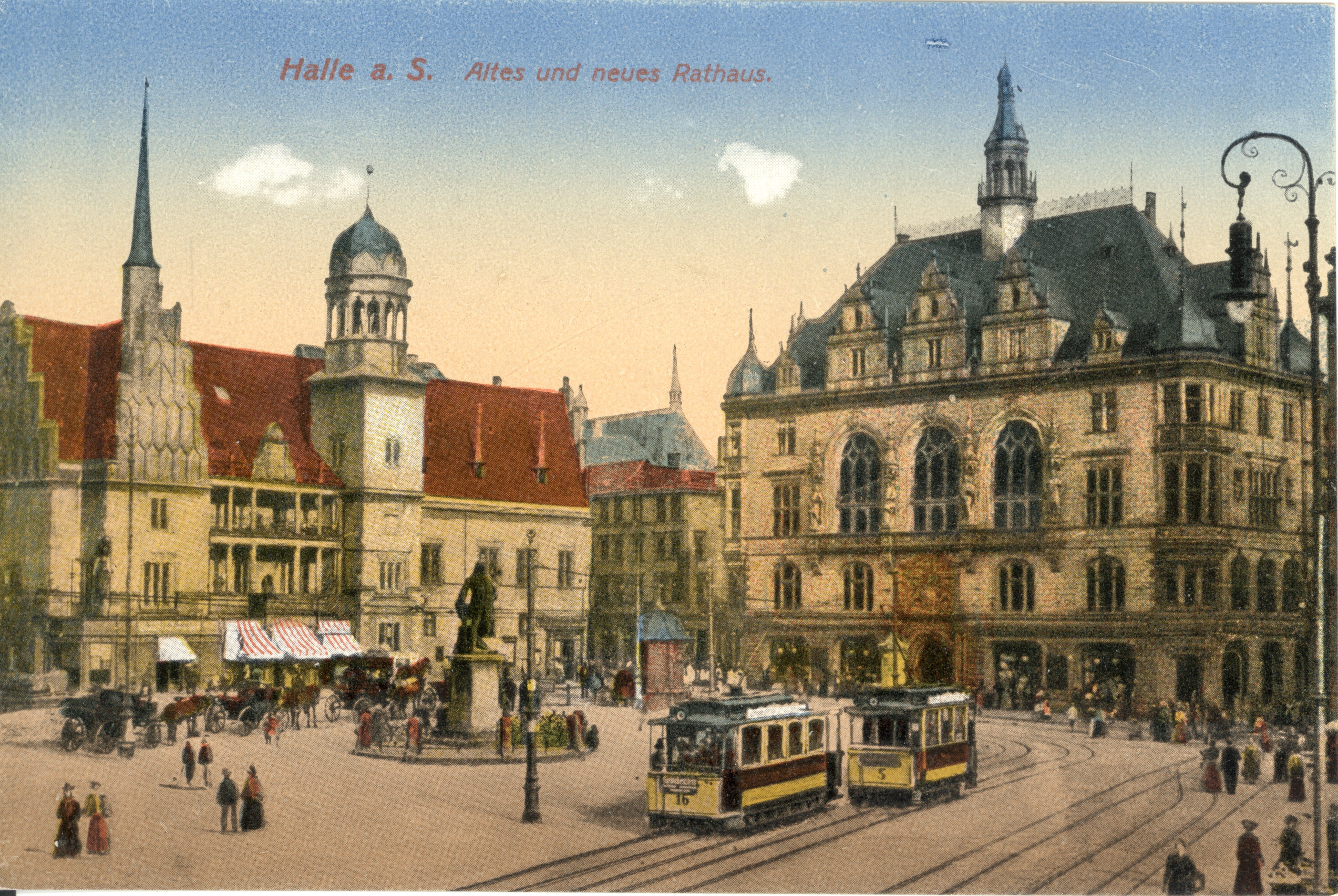 Townhalls in Halle (Saale)